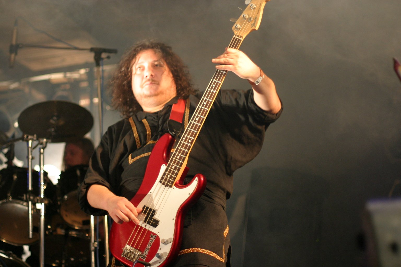 Ruslan "Knjas", bassist of the russian Pagan-Metal-Band Arkona, performing live at the Black Troll Festival (Germany) in 2010.